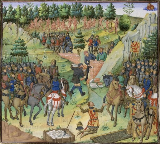 Alexander building a wall to enclose the people of "Gog and Magog", from Wauquelin's story of Alexander. Bruges, Belgium, 15th cent. [1]